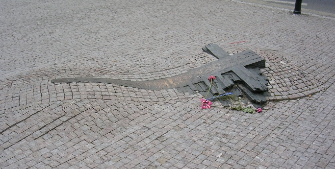 Photo of the memorial to Jan Palach and Jan Zajic at Wenceslas Square in Prague, Czech Republic.